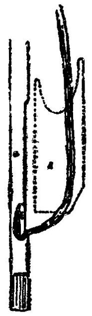 Illustration ov removable bow frog.